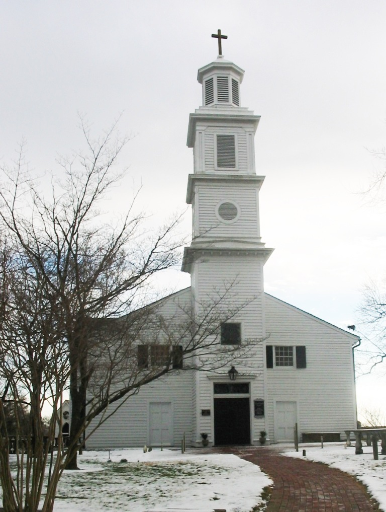 Saint John's Church, Richmond.